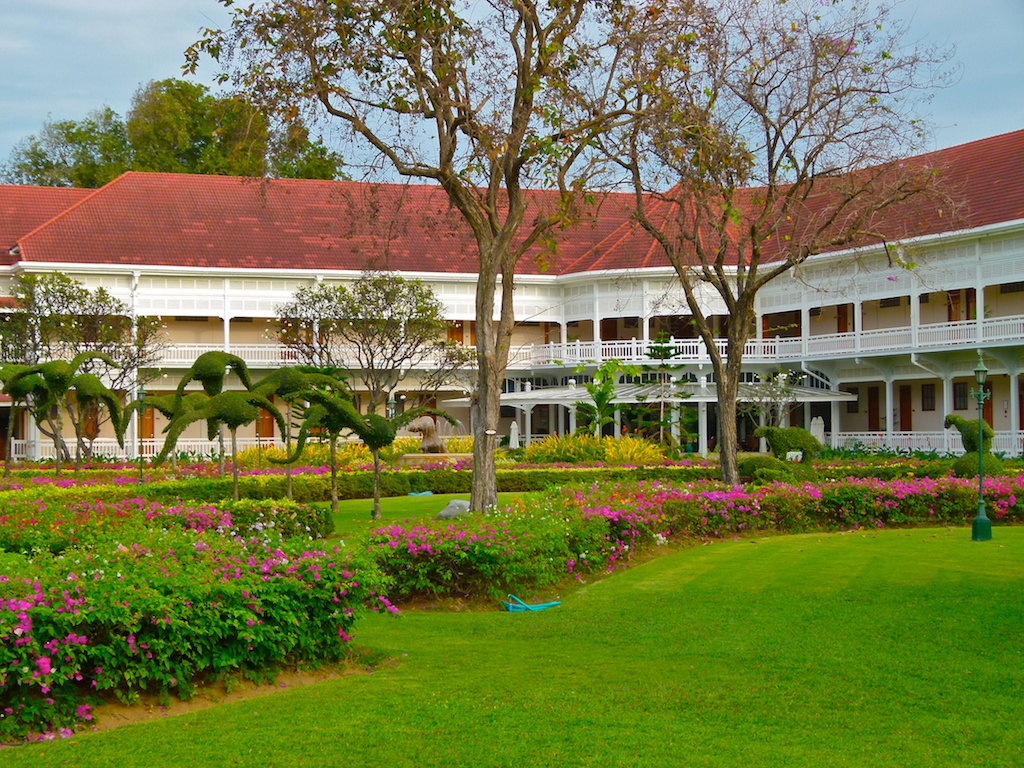 Centara Grand - former Sofitel